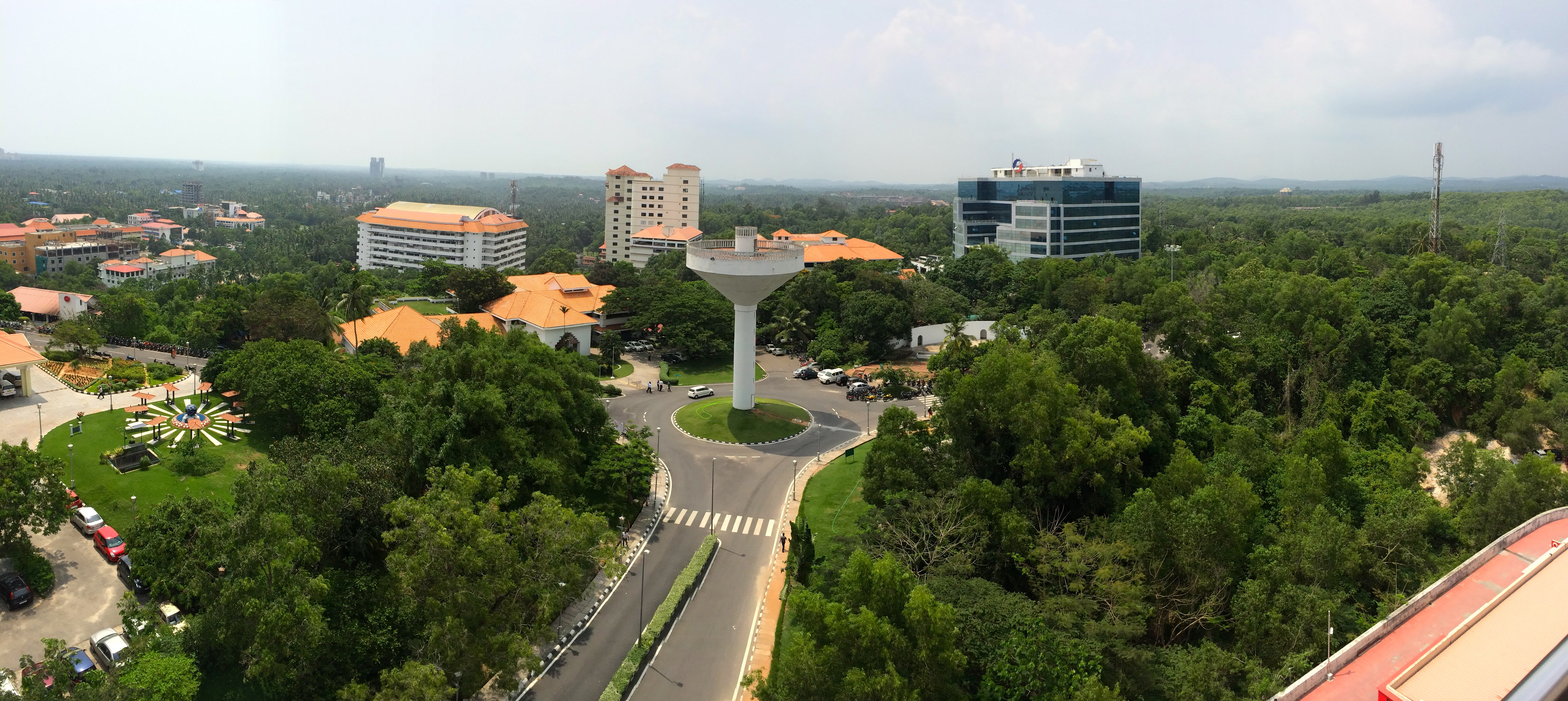 This is the Aerial view of Technopark Trivandrum took on June 2014